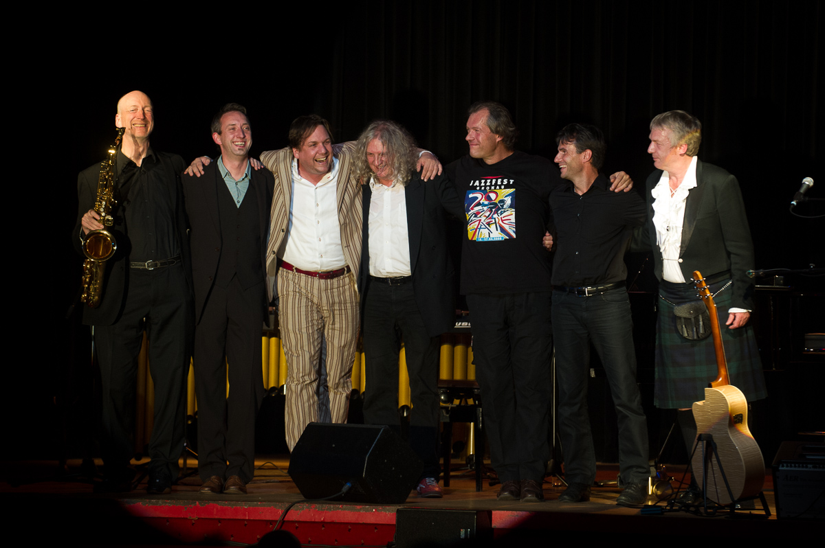 Stand-Up Comedian Matthias Brodowy performing "In Begleitung" with Andreas Böther, Joe Doll, Matthias Brodowy, Wolfgang Stute, Hajo Hoffmann, Matthias Phillipzen und Carsten Hormes (left to right)